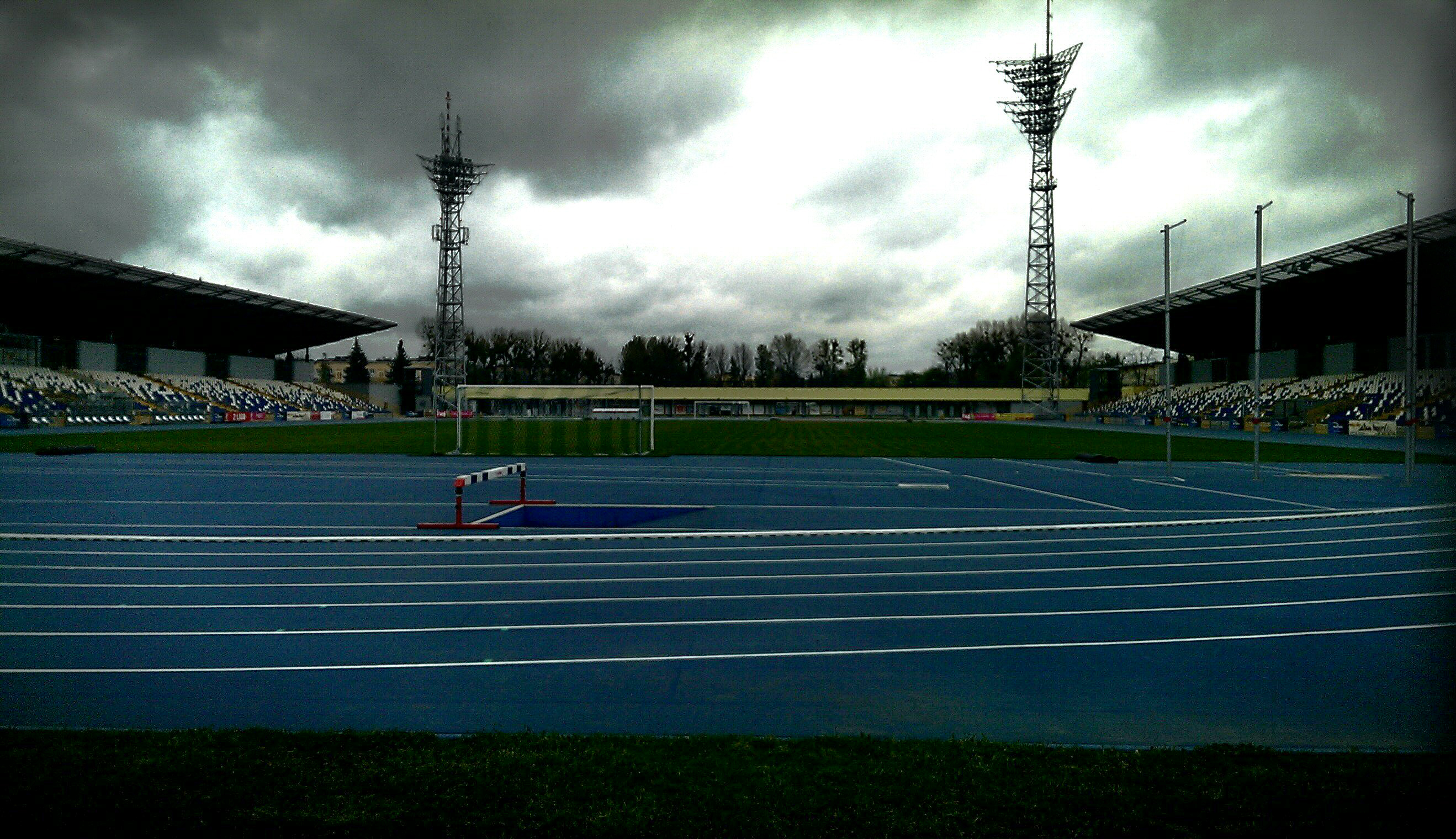 Photo of Stadion Stali Mielec in Mielec, Poland. Photo taken on April 19, 2014.